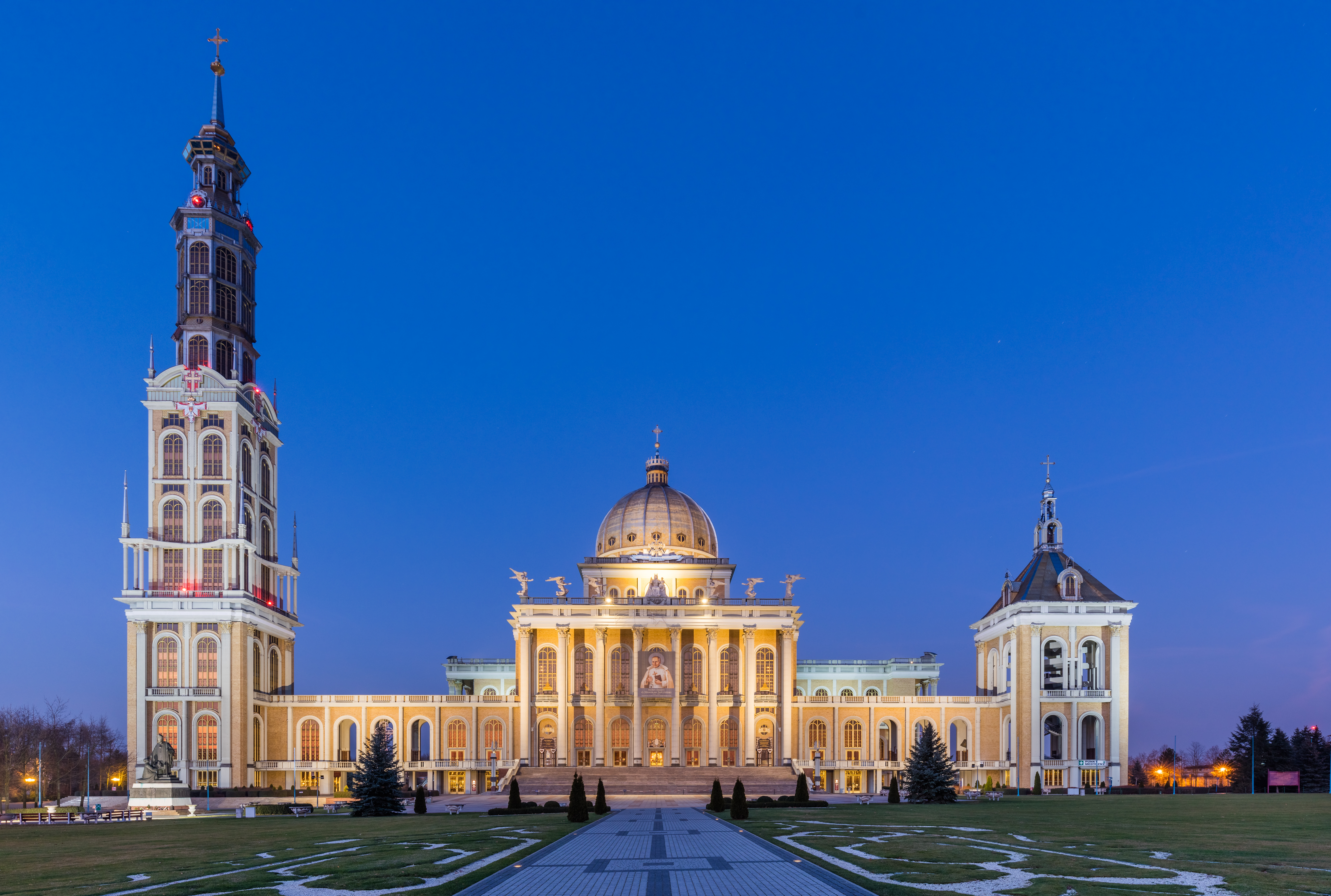 View at dusk of the Basilica of Our Lady of Sorrows, Queen of Poland, located in the village of Licheń Stary, near Konin, Greater Poland Voivodeship, Poland. The basilica, designed by Barbara Bielecka was built between 1994 and 2004. With a 120 metres (390 ft) long and 77 metres (253 ft) wide nave, a 98 metres (322 ft) high central dome, and a 141.5 metres (464 ft) high tower, it is Poland's largest church and one of the largest churches in the world.